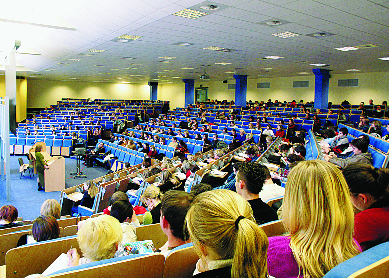 aula bis